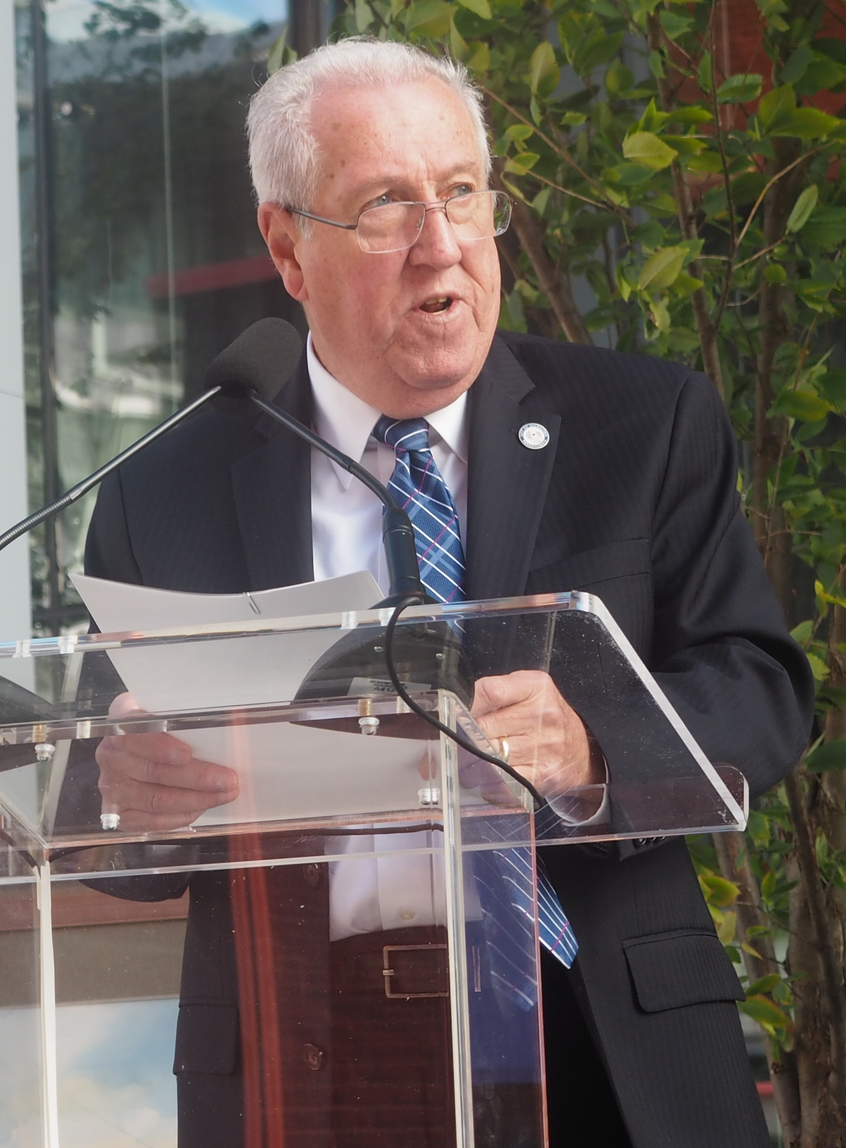 Ray O'Connell, the Mayor of Allentown, Pennsylvania, Pennsylvania, speaking in downtown Allentown on October 10, 2019. This is a cropped version of [file].